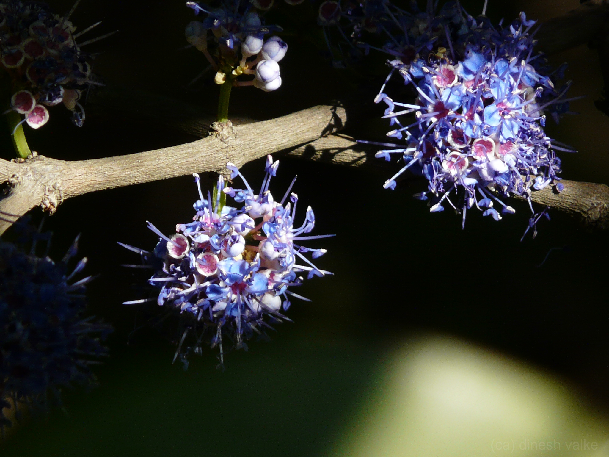 Delek Air Tree, Ironwood Tree (Memecylon umbellatum, syn. M. edule), Tungareshwar Wildlife Sanctuary, India. References: Flowers of India, Forest Flora of Andhra Pradesh